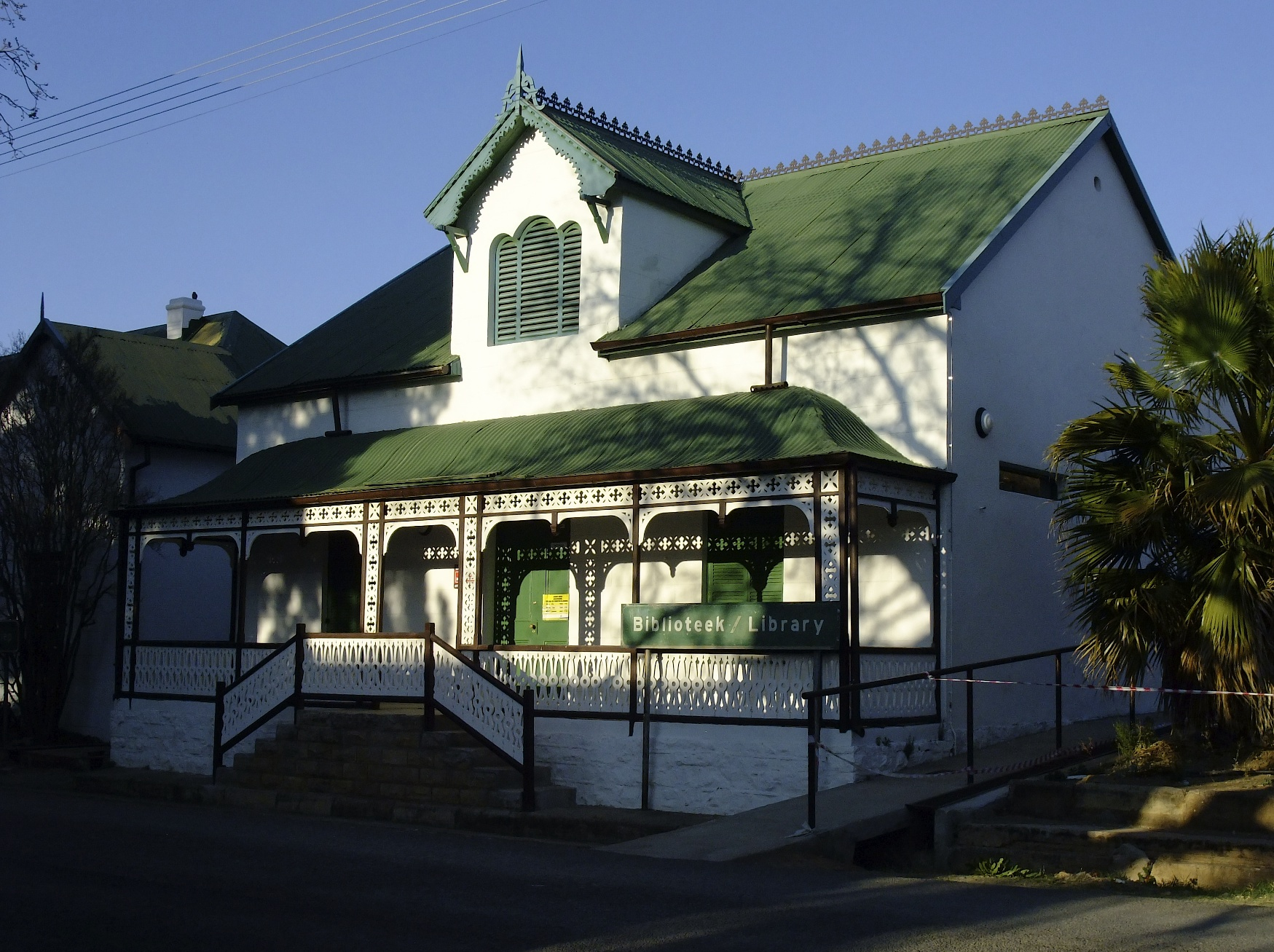 Jacobson Museum and Library, 34 Voortrekker Street, Philippolis This media shows a South African Protected Site with SAHRA file reference 9/2/331/0013.